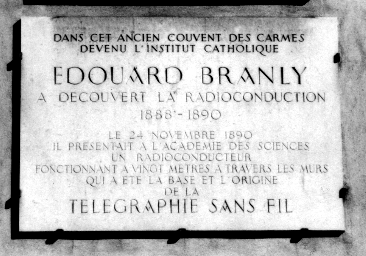 Plaque commemorating French radio researcher Edouard Branly's discovery of radioconduction (the coherer), Catholic Institute, 74 rue de Vaugirard, Paris 6th.